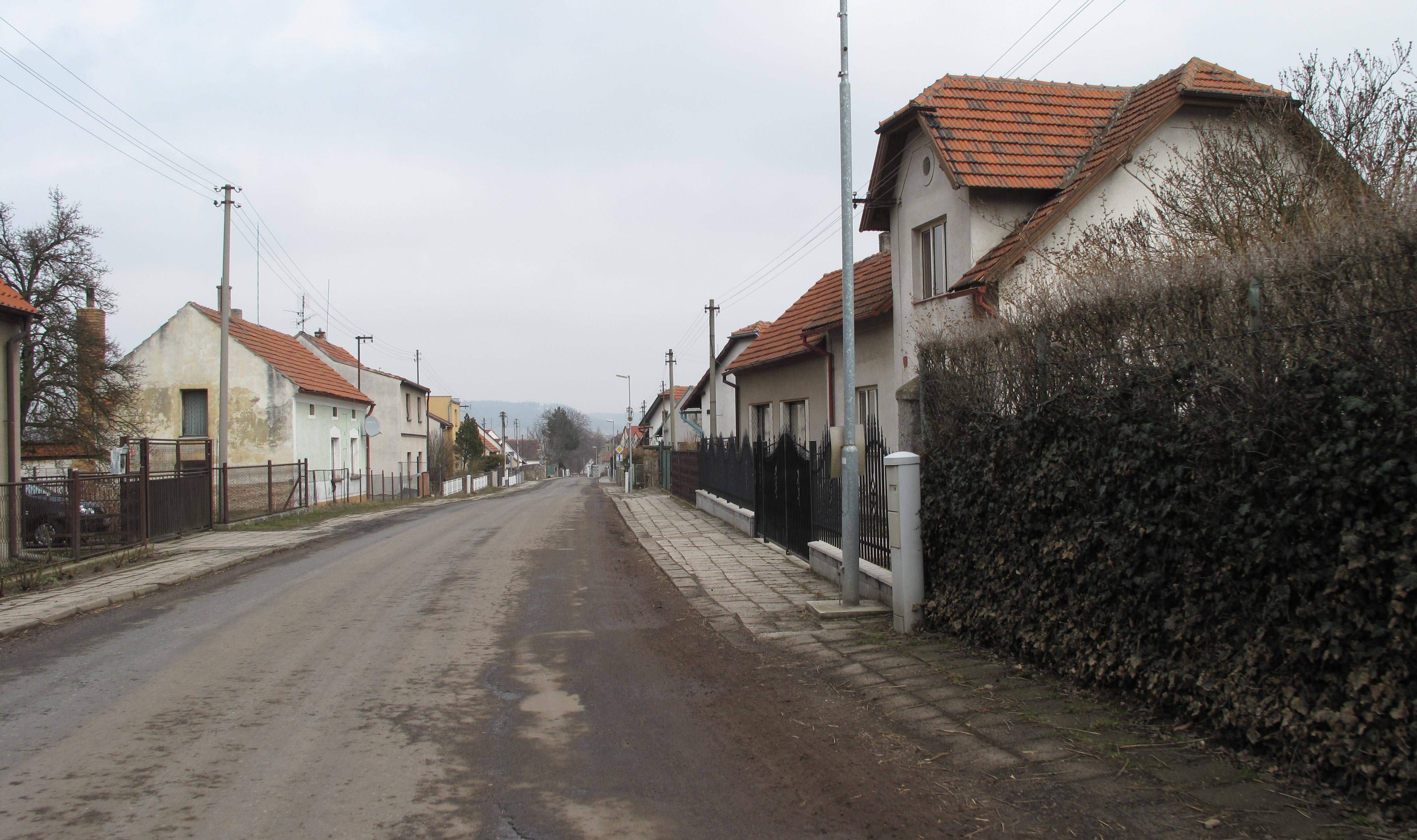 Houses by road in Janov village, Rakovník District, Czech Republic.